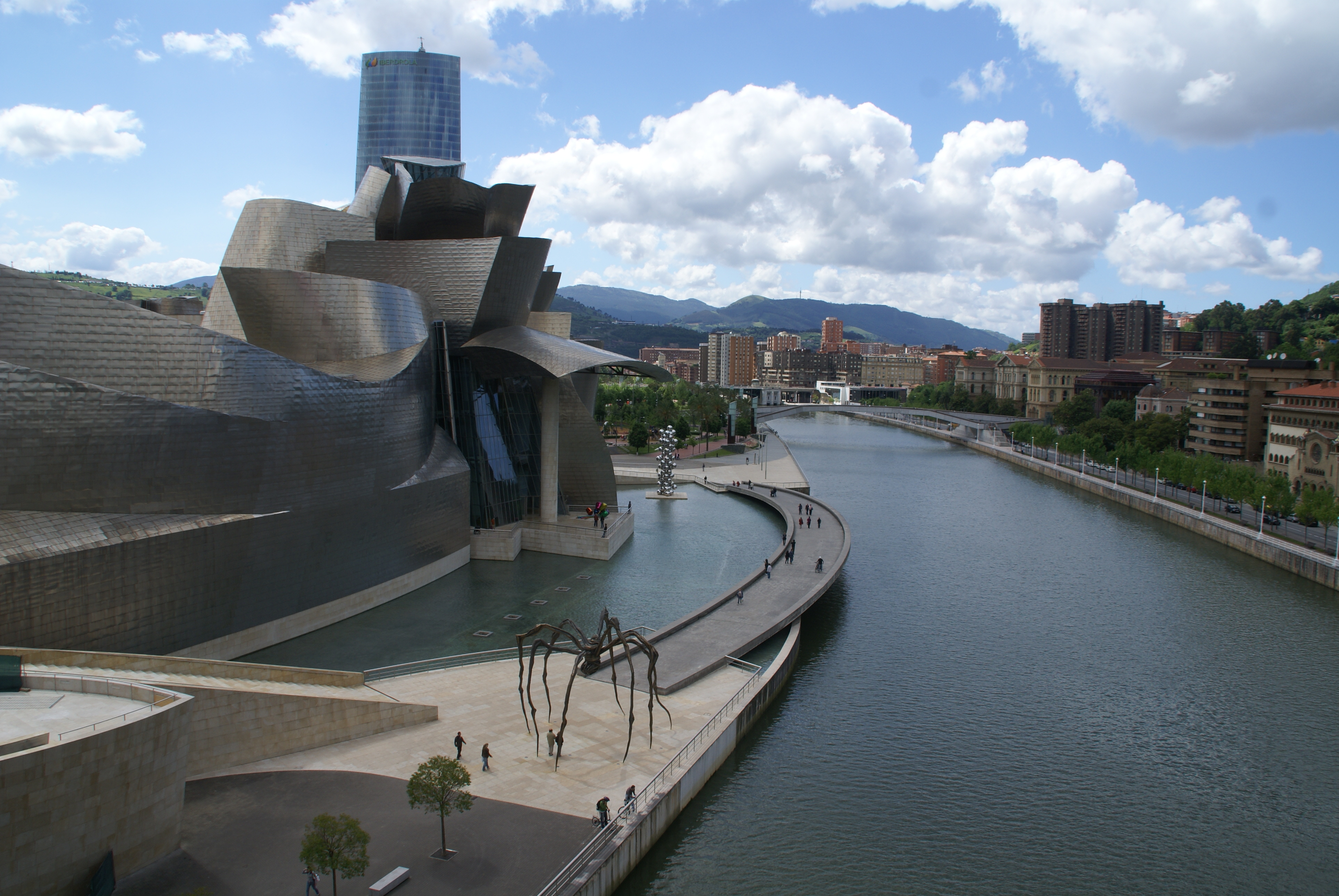 The Guggenheim Museum in Bilbao, from the road bridge. (dsc00200)